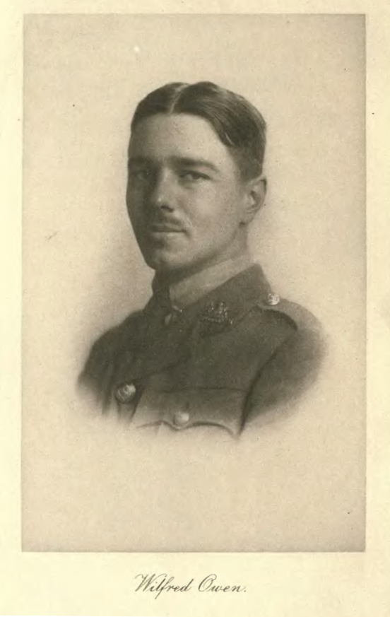 Portrait of Wilfred Owen, found in a collection of his poems from 1920.